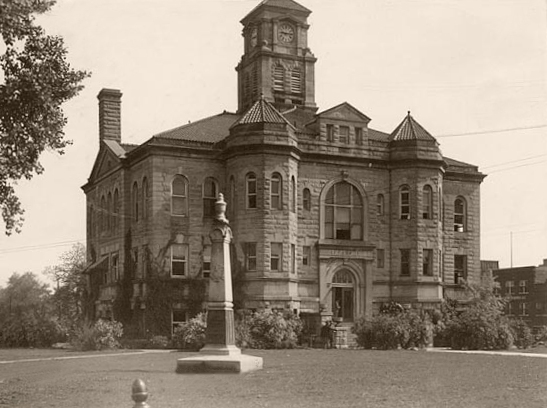 Appanoose County Courthouse Object location40° 44′ 02″ N, 92° 52′ 28″ W